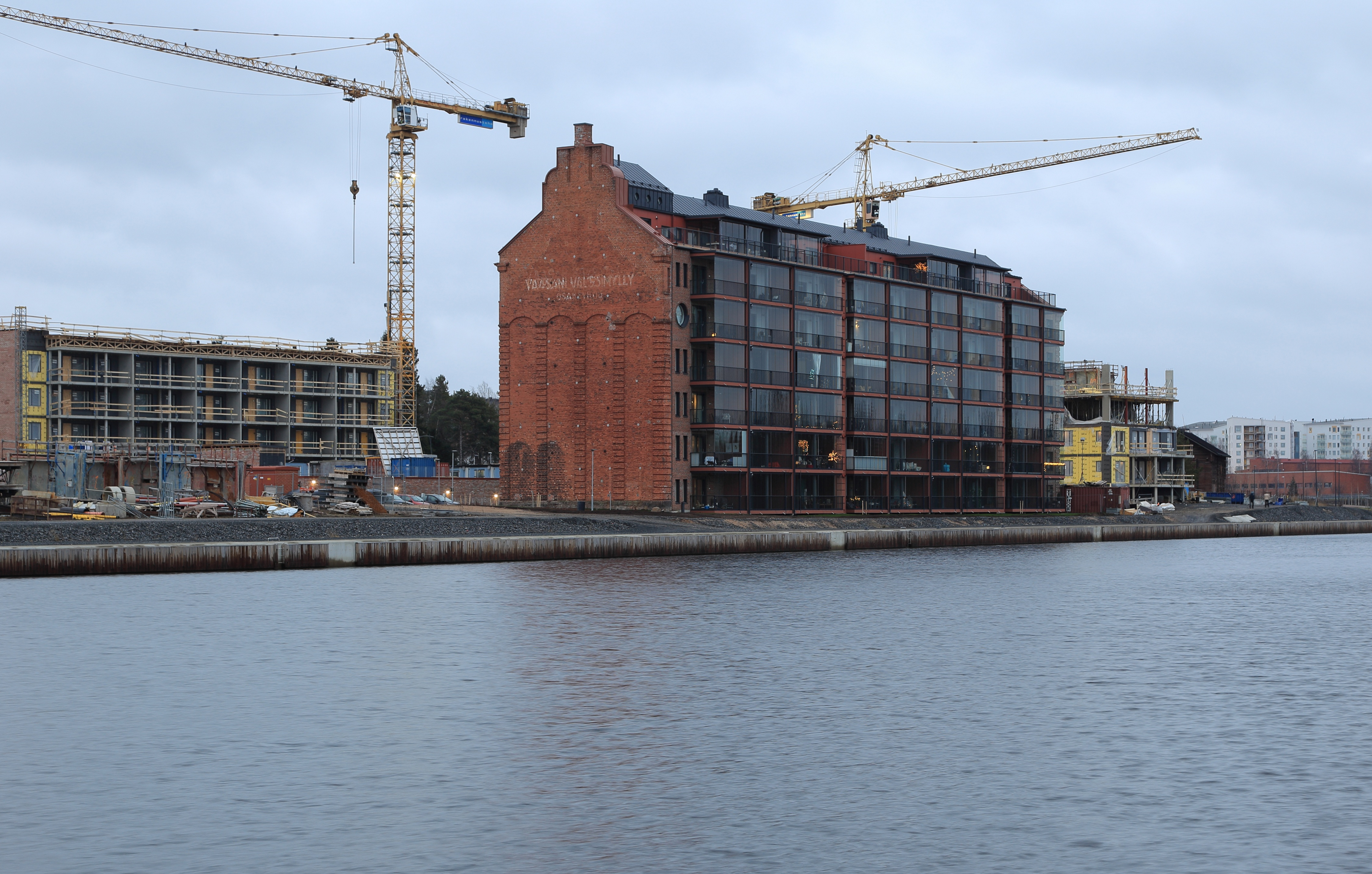 The Punainen Mylly apartment building in Toppila, Oulu.